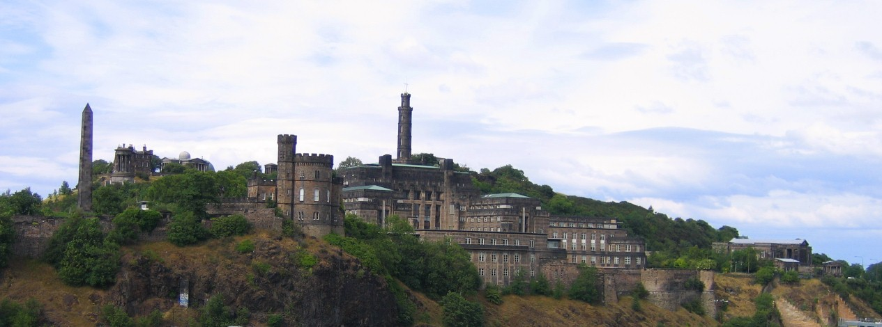 Calton Hill, Edinburgh, Scotland